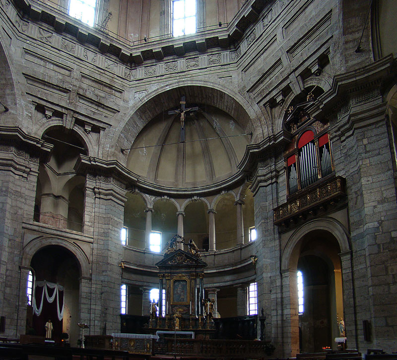 San Lorenzo Maggiore, Milan, Lombardy, Italy.